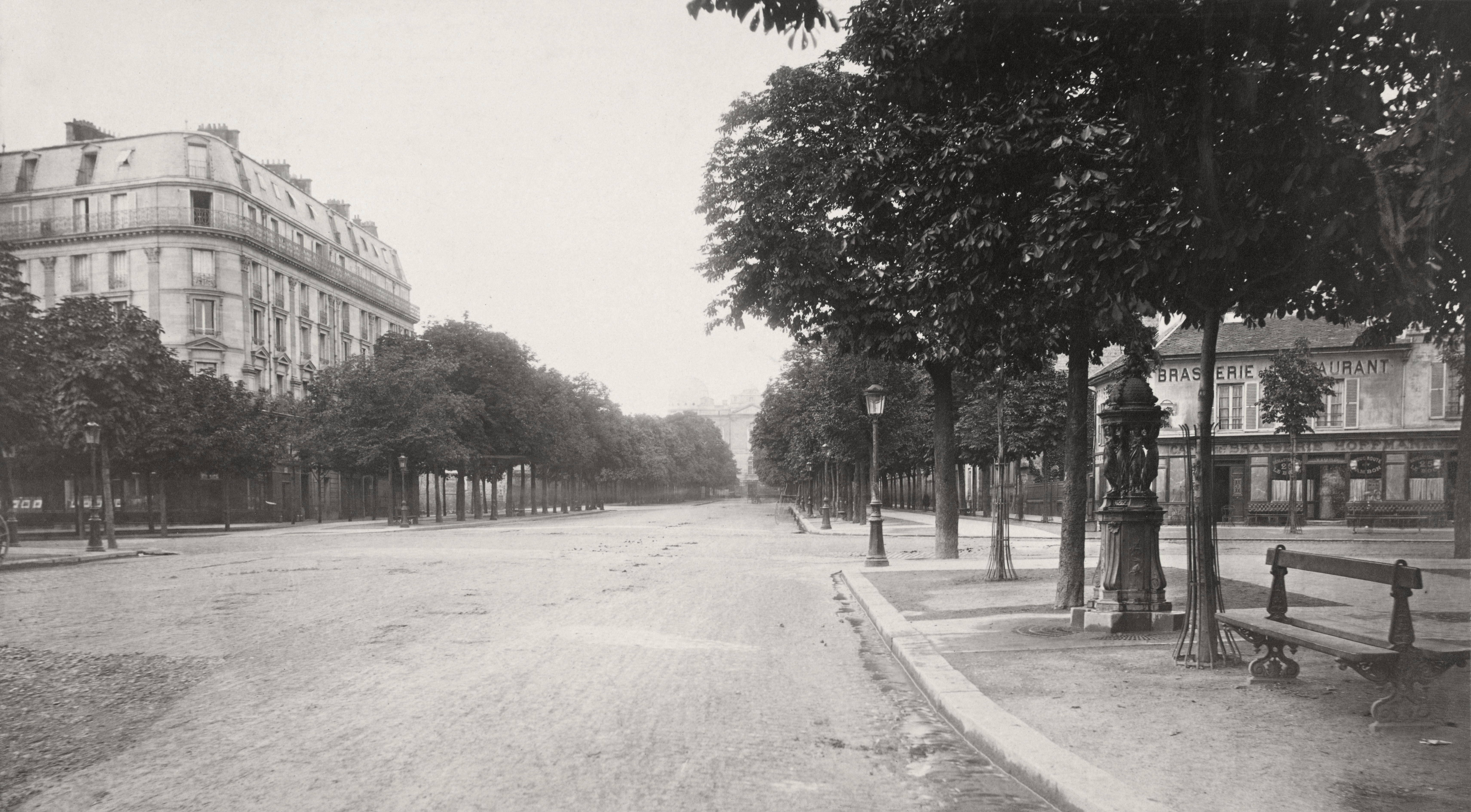 Looking along unsurfaced road, trees lining both curbs, restaurant on corner of intersection.